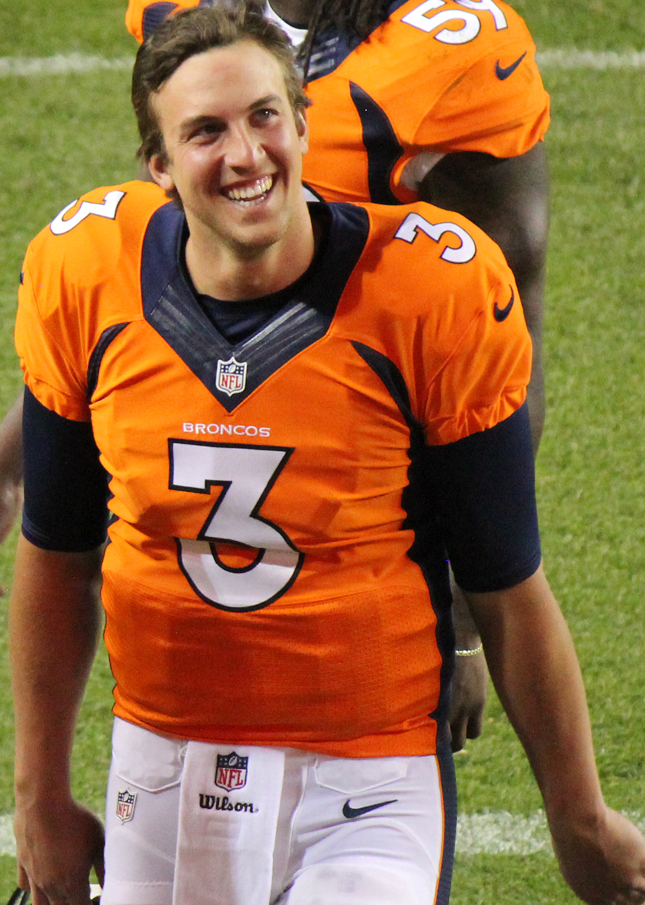 Trevor Siemian, a player on the National Football League.